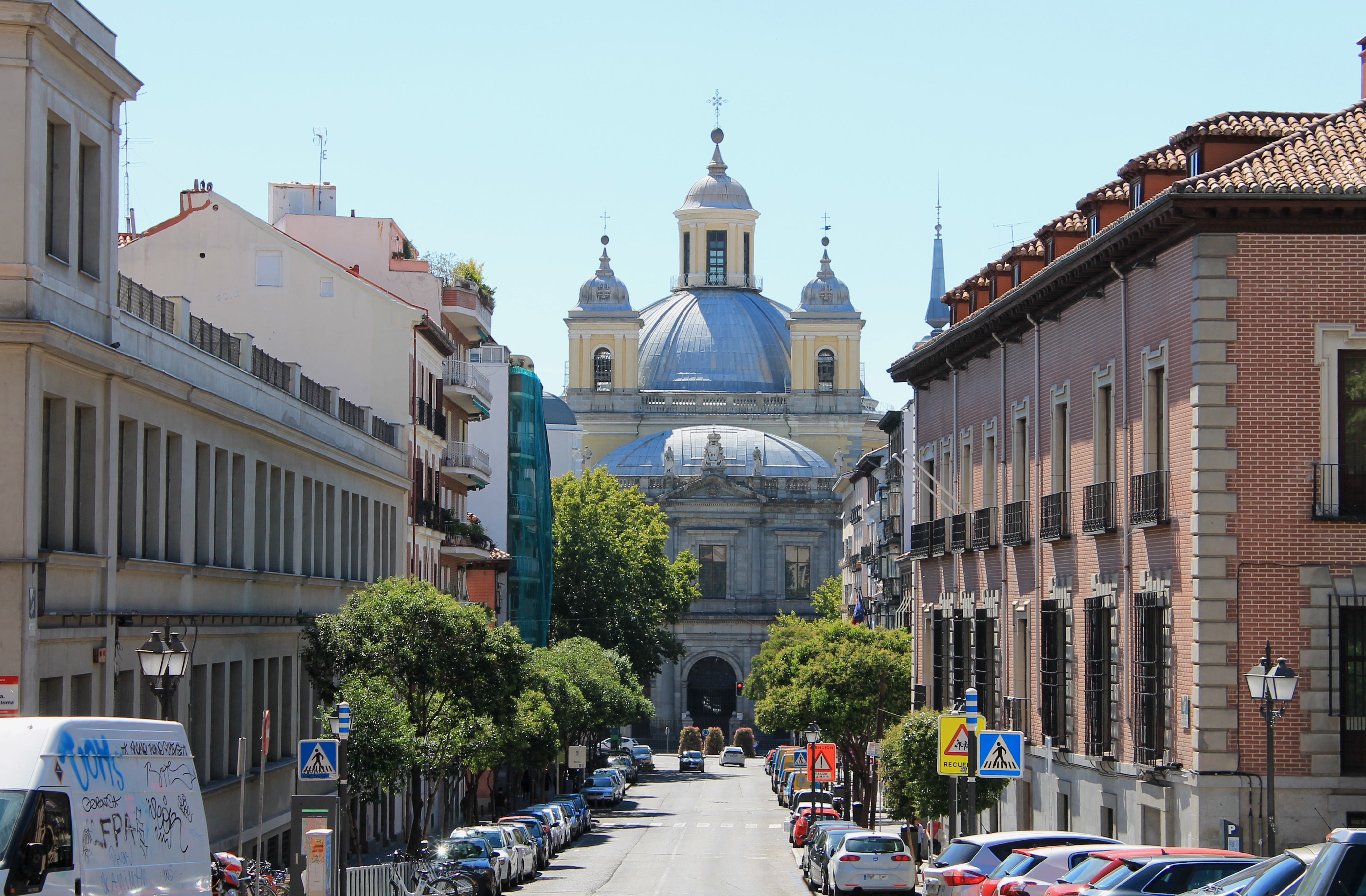 View of Carrera de San Francisco (street) in Madrid (Spain).